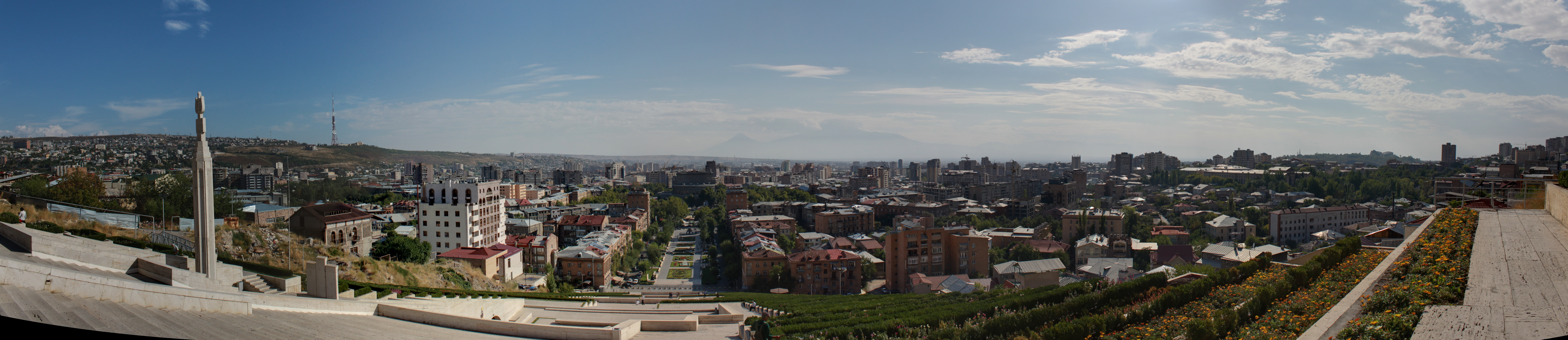 Panorama of Yerevan. HDR panorama created from 14 images (3 exposures per 5 frames -1 bad exposure). Stitched using Hugin.